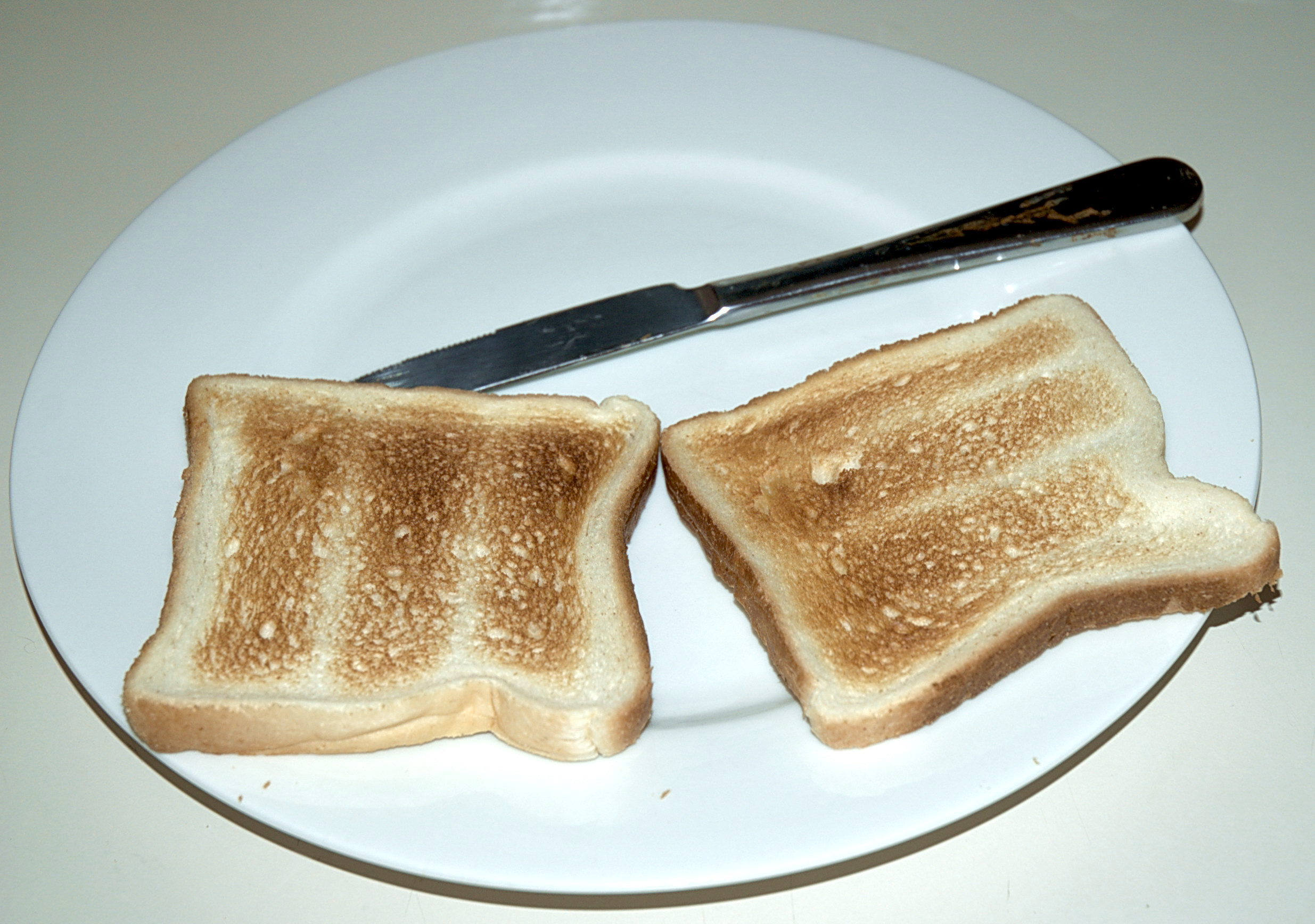 Two pieces of Toast on a plate with a knife.